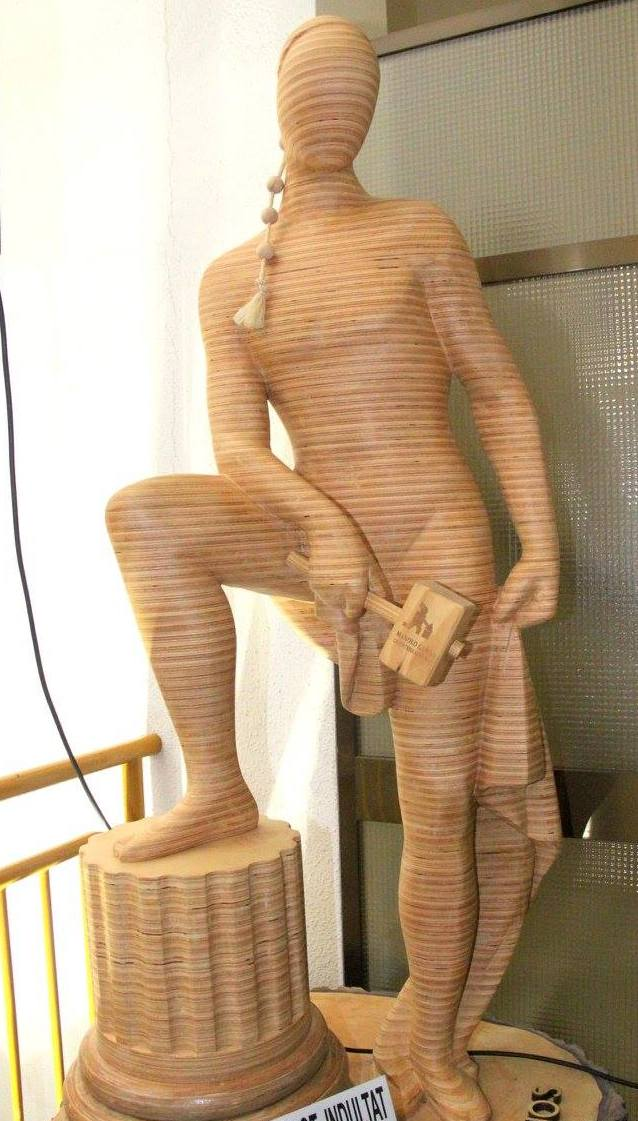 Sculpture representing the logo of Falles Artists Association